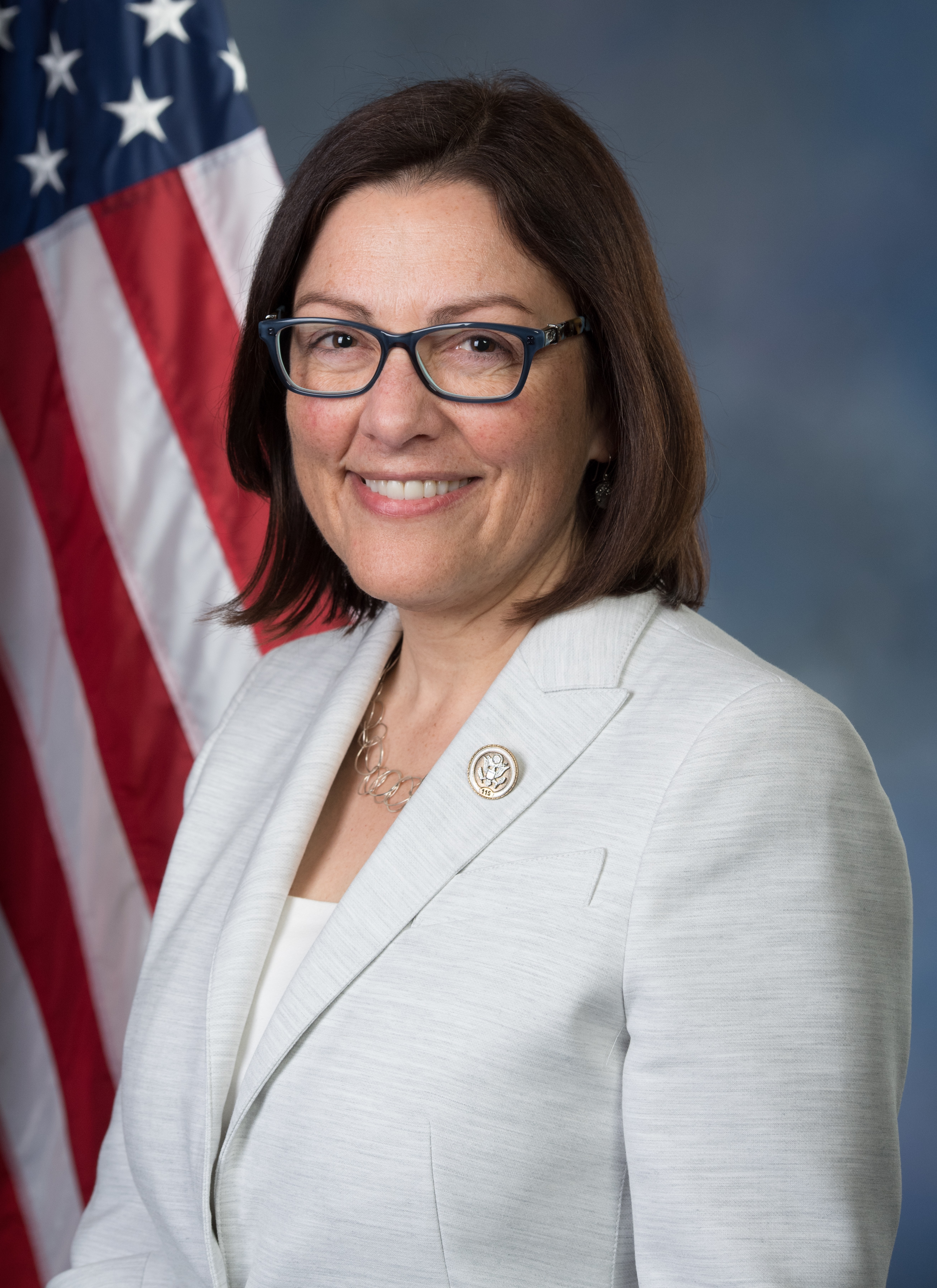 Official portrait of Congresswoman Suzan DelBene (D-WA).